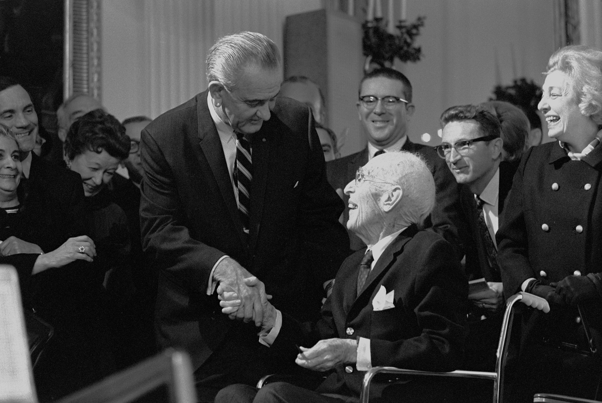 President Lyndon B. Johnson greets Upton Sinclair as others look on.